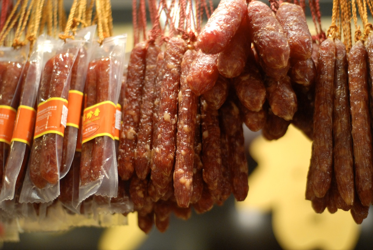 Chinese sausage at Changi Airport. Singapore This work is licensed under Creative Commons 2.0 Generic. You are free to share and to remix with attribution.